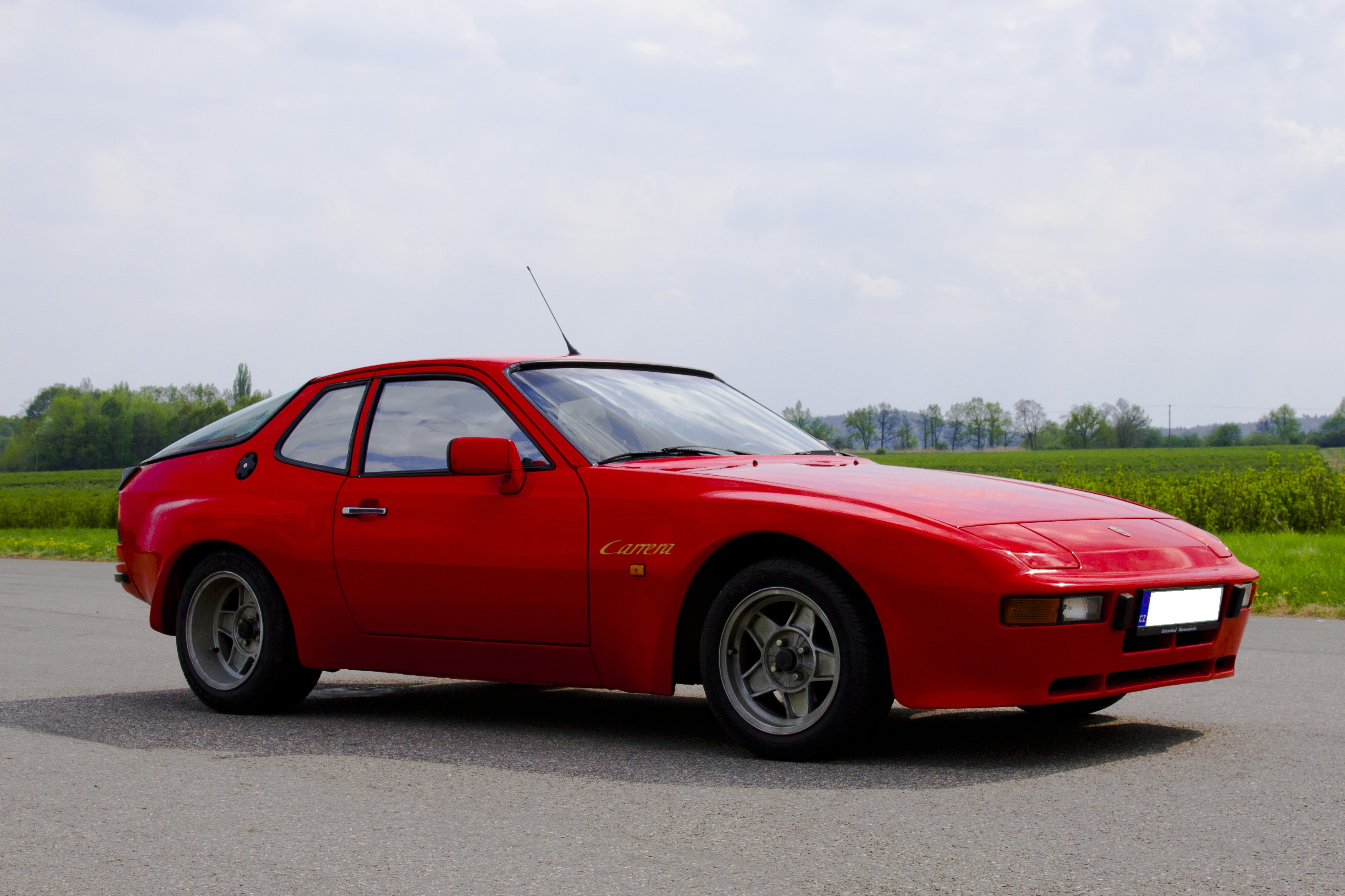 Porsche 924 Carrera GT